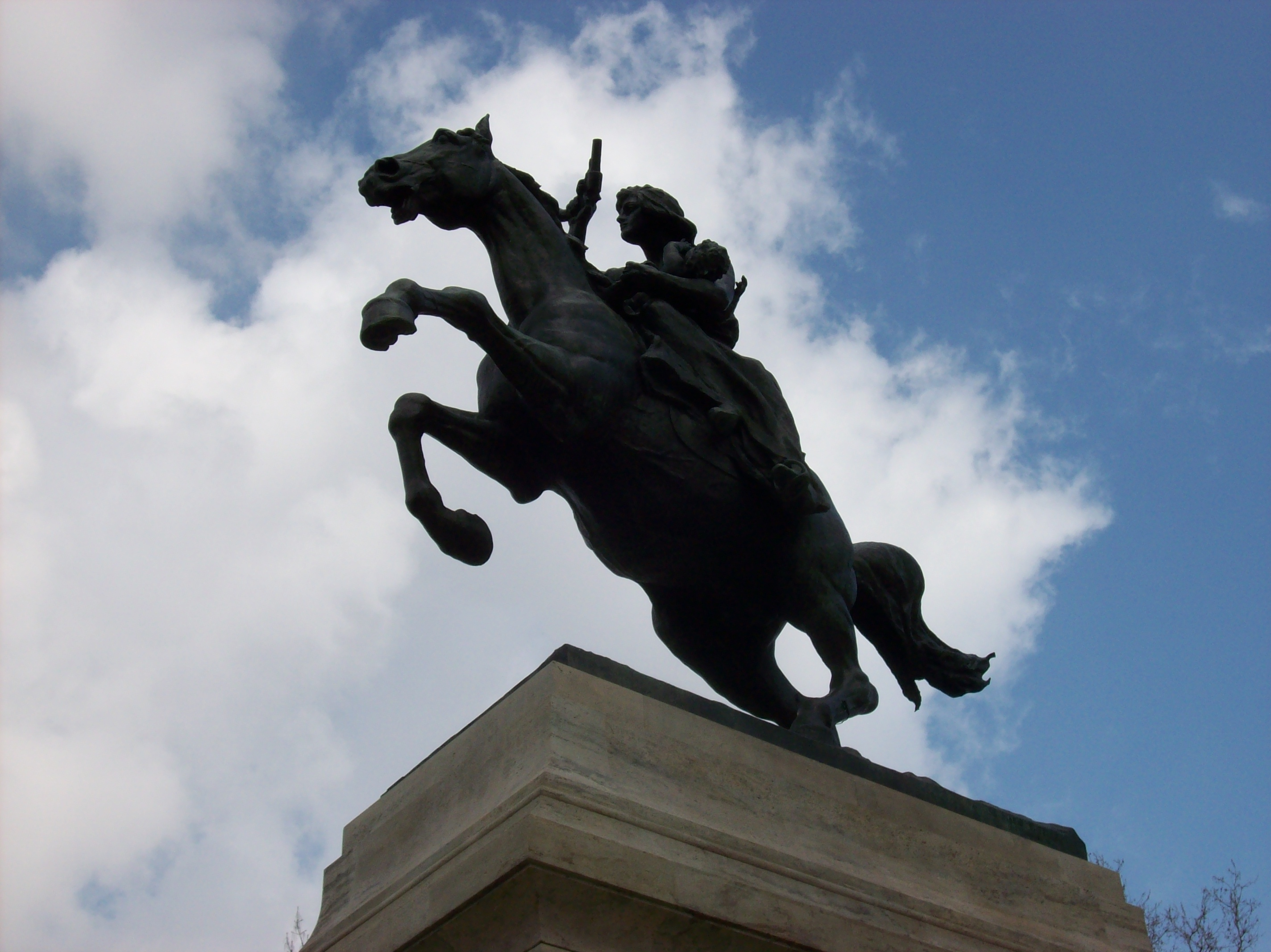 Mario Rutelli's bronze statue of Anita Garibaldi (built 1932) on the Gianicolo Hill, Rome. The monument is also Anita Garibaldi's grave as her ashes rest in the statue's pedestal